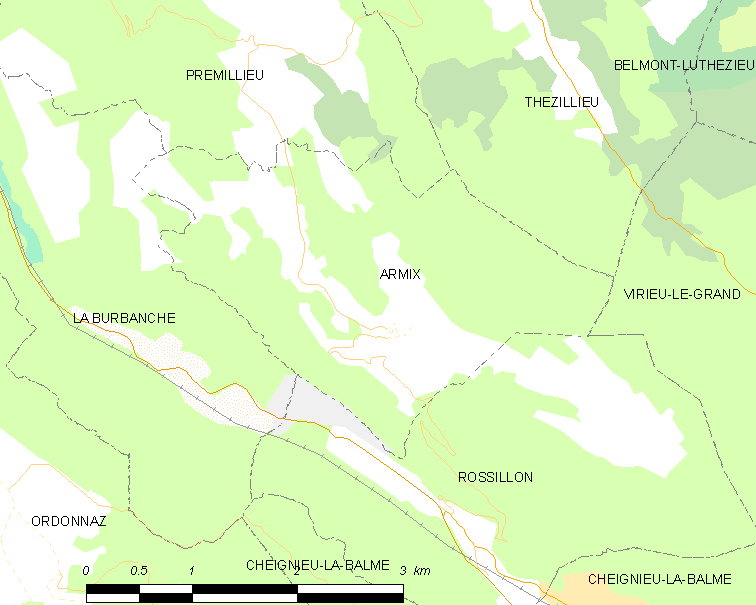 Map of French commune: Armix Map commune FR insee code 01019.png